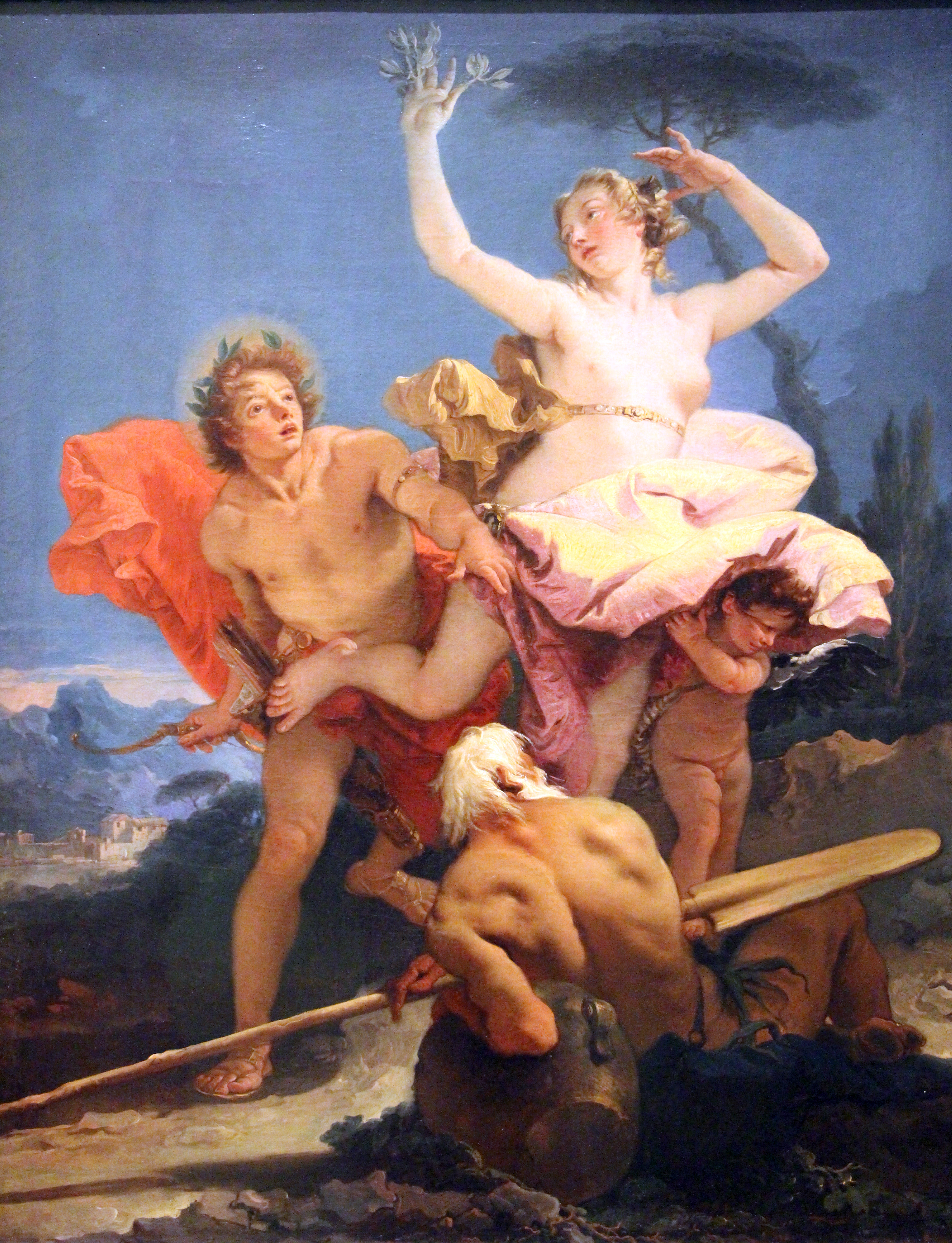 Italian paintings in the Louvre